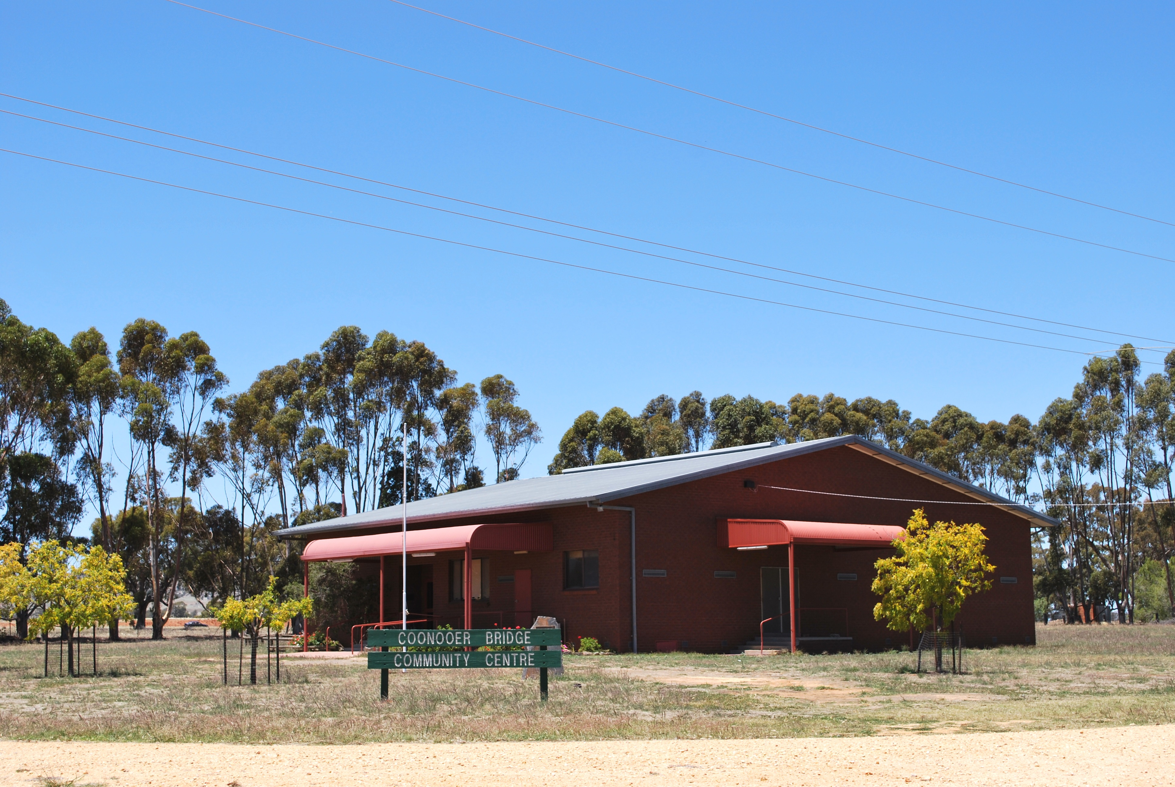 Community centre at Coonooer Bridge, Victoria